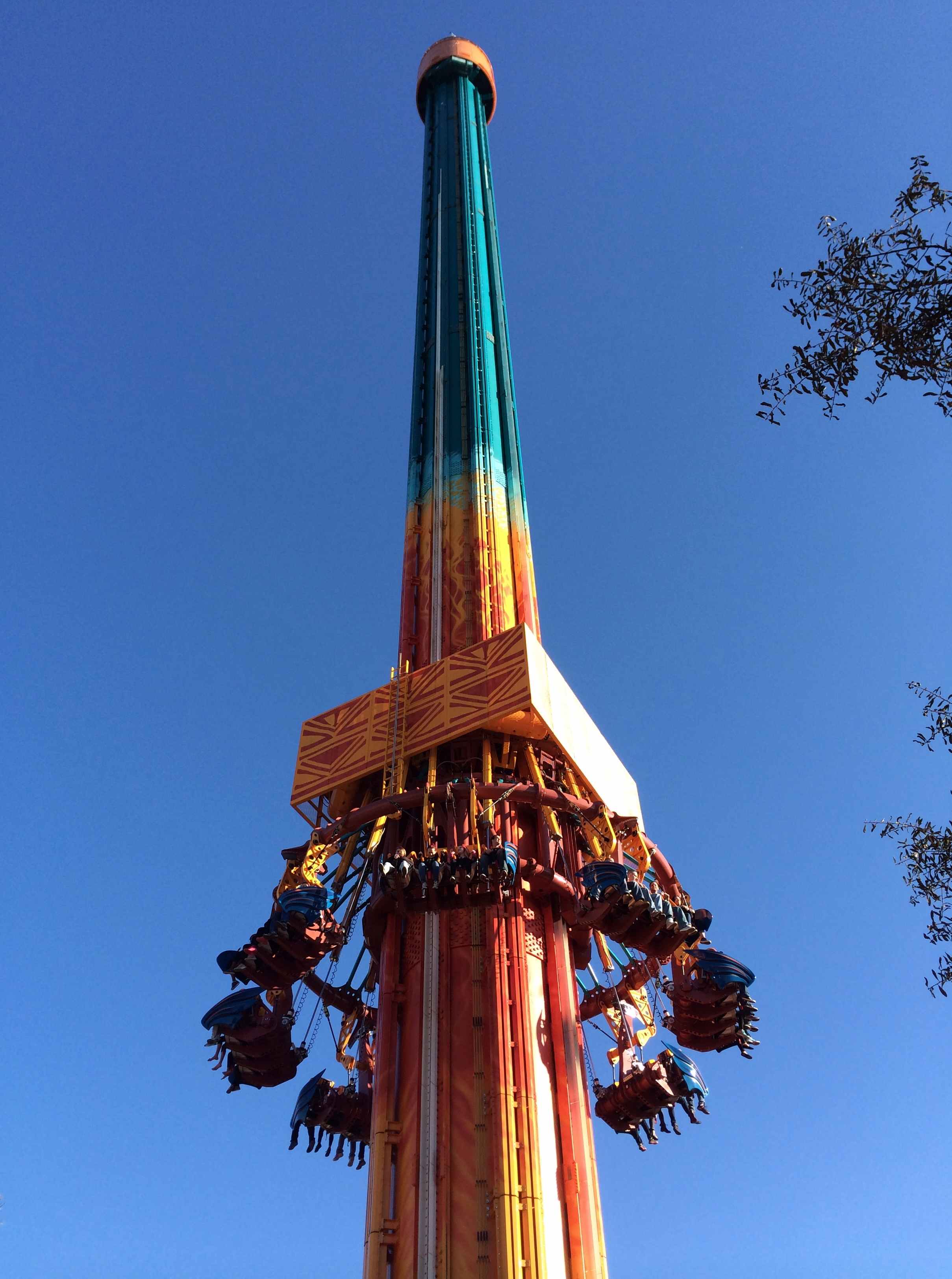 Tampa - Busch Gardens - Pantopia - Falcon's Fury